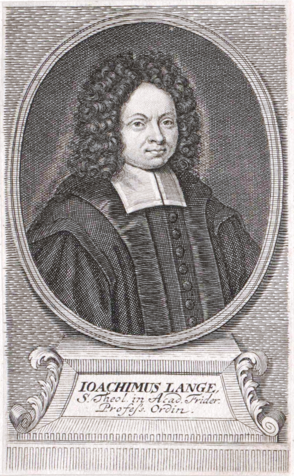 Joachim Lange (1670-1744) Protestant theologians from Germany